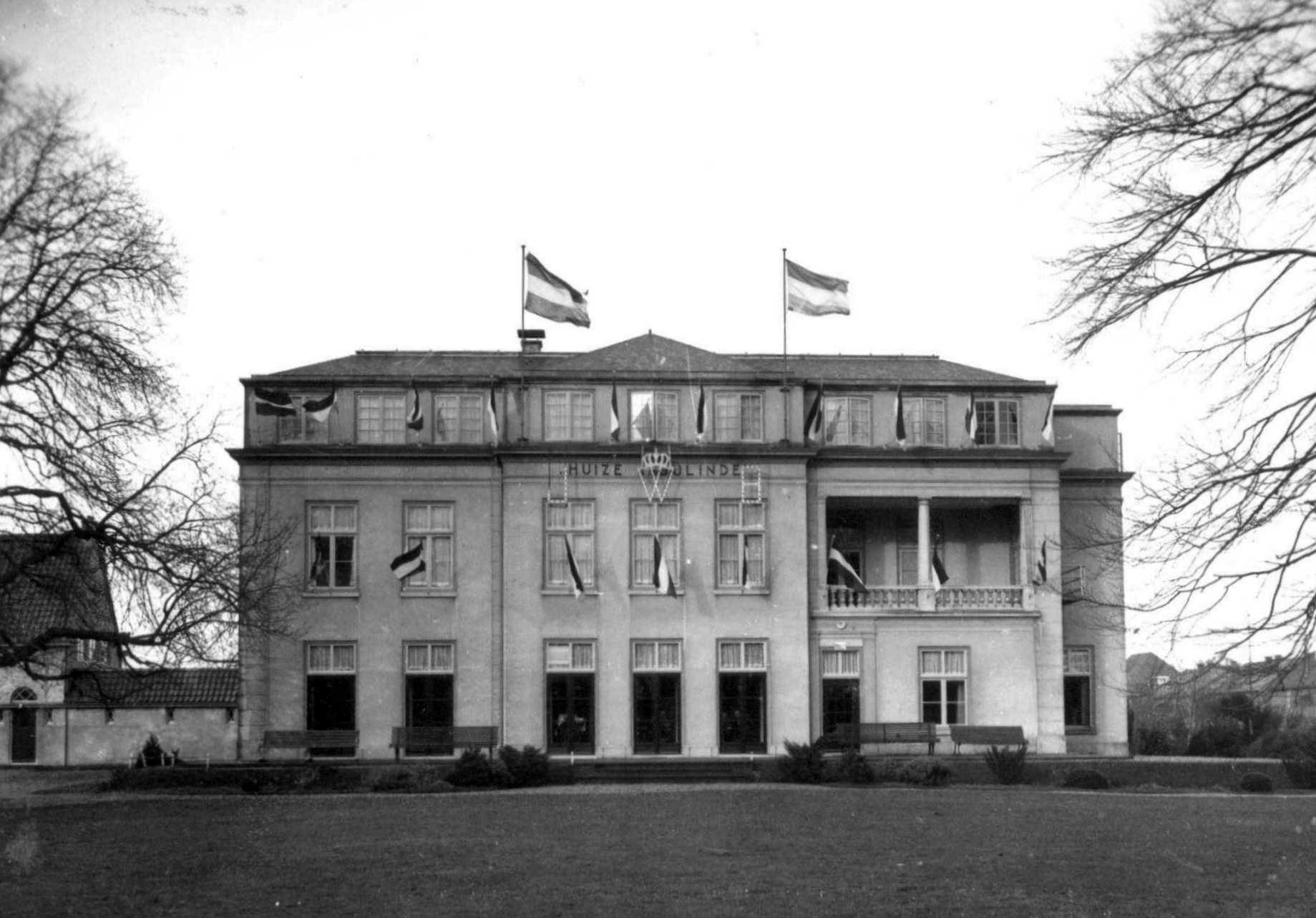 Huize Insulinde, Hees, Nijmegen 1938 Home for former KNIL soldiers.